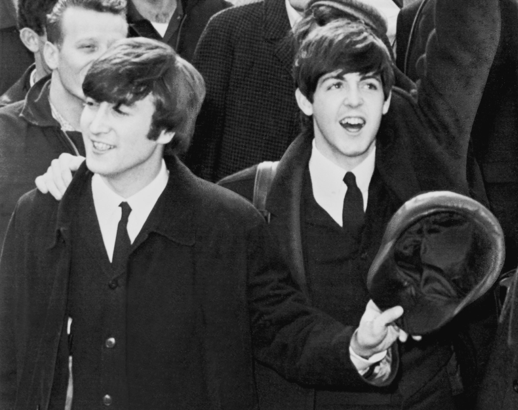 John Lennon and Paul McCartney at Kennedy Airport.